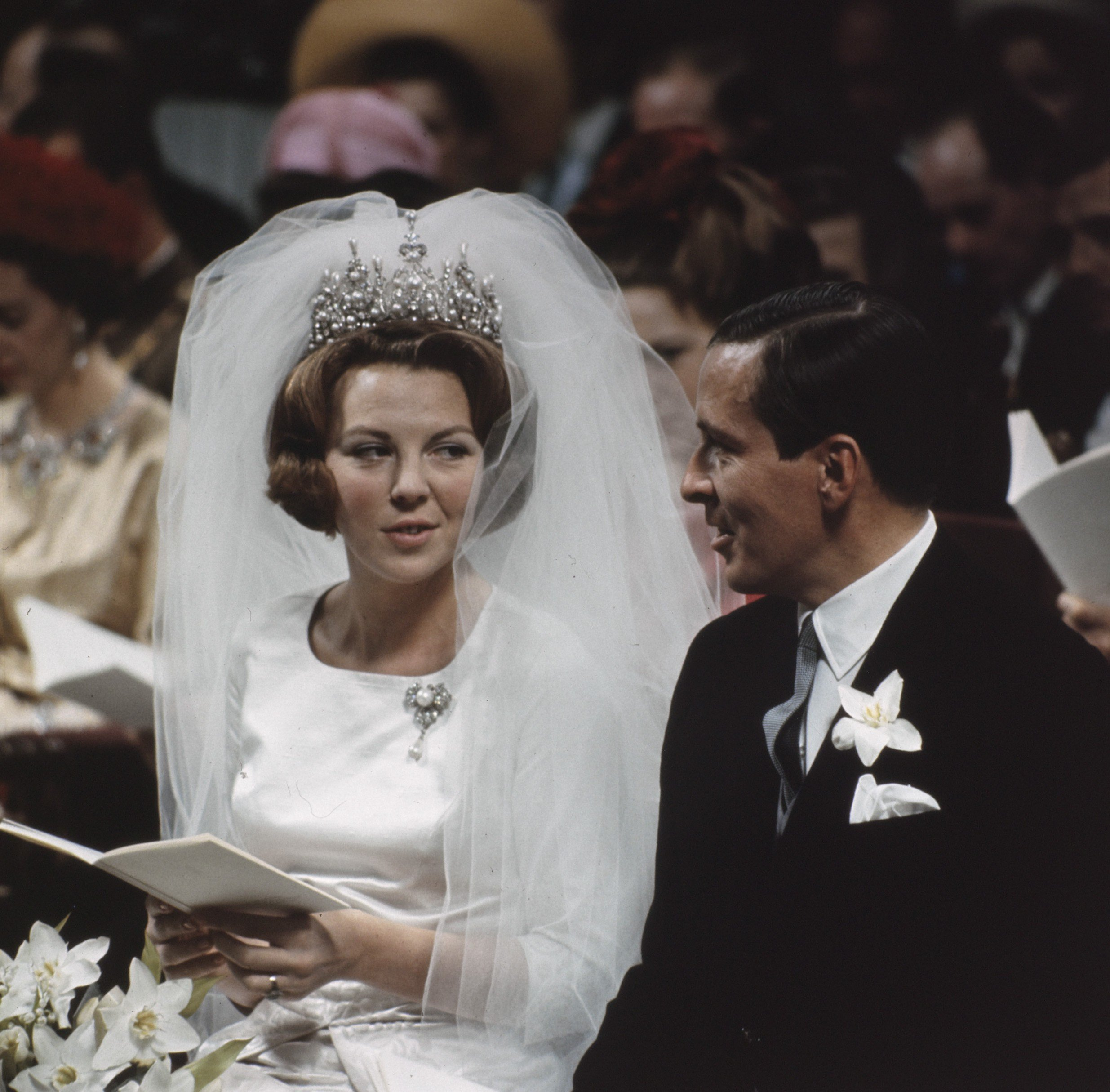 Wedding ceremony of Claus von Amsberg and (then) Princess Beatrix of the Netherlands, 10 March 1966 in the Westerkerk (Amsterdam)